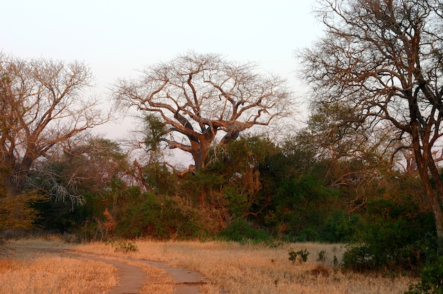 Lengwe National Park, Malawi: Landscape